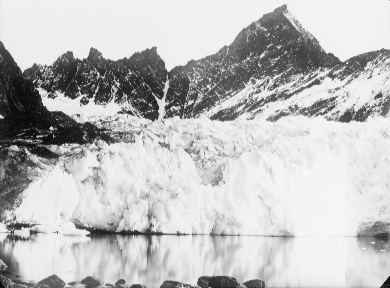 Reproduction ID: P00009 Maker: James Francis Hurley Date: November - December 1914 Materials: Gelatine dry plate Henley Collection